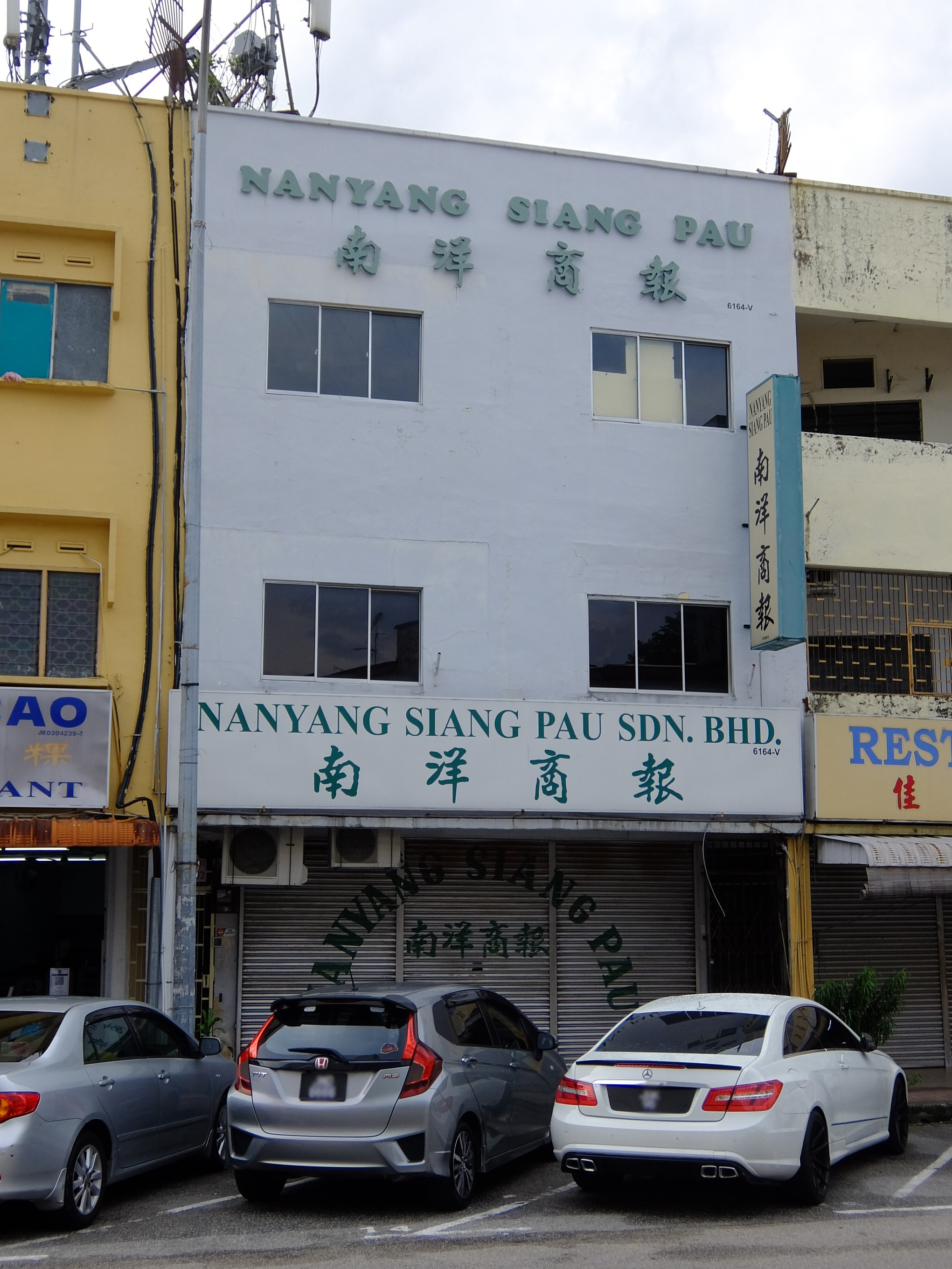 Nanyang Siang Pau, Taman Pelangi, Johor Bahru, Johor, Malaysia